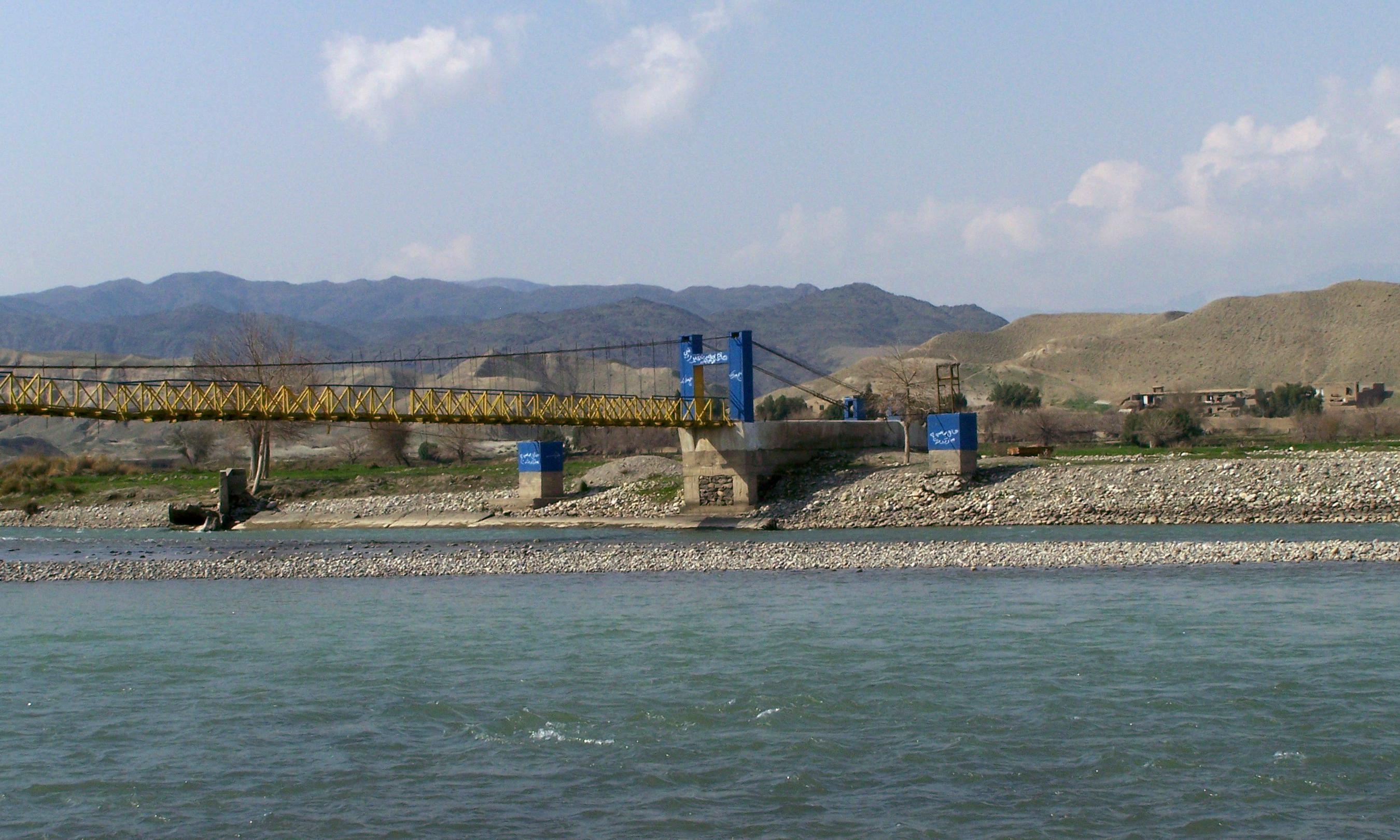 Bridge over the Kabul River east of Kabul, Afghanistan